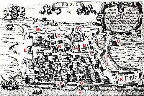 Map of Reggio Calabria in the XVII century with localization of main buildings. On the map are indicated the city gates, main churches and fotifications with castles